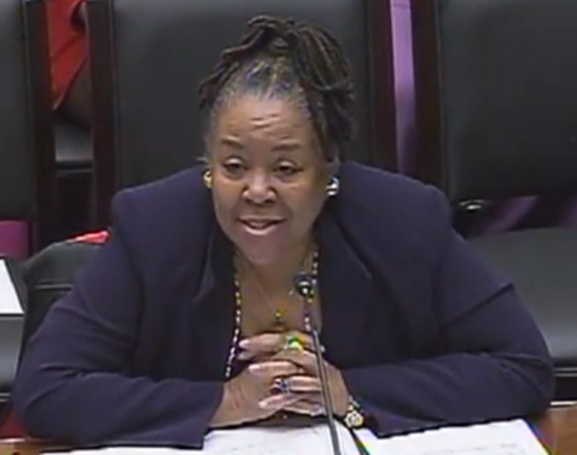 The DC Opportunity Scholarship Program: Keeping The Door Open (Part 2) The DC Opportunity Scholarship Program: Keeping The Door Open (Part 2) - House Oversight Committee - 2011-03-01 - House Committee on Oversight and Government Reform. Subcommittee on Health Care, District of Columbia, Census and the National Archives hearing will take place at 9:30 a.m. in room 2154 Rayburn HOB on Tuesday, March 1. Witnesses: Panel I: Mr. Ronald Holassie, Senior at Archbishop Carroll High School, DC OSP Recipient; Ms. Lesly Alvarez, 8th Grade Student at Sacred Heart School, DC OSP Recipient; Ms. Sheila Jackson, Mother to OSP Student, Shawnee Jackson; Ms. Latasha Bennett, Mother to OSP Students, Nico and Nia Bennett. Panel II: Mr. Kevin Chavous, Chairman, Black Alliance for Education Options; Dr. Patrick Wolf, Professor and 21st Century Chair in School Choice, Department of Education Reform, University of Arkansas; Ms. Betty North, Principal and CEO, Preparatory School of DC; Dr. Ramona Edelin, Executive Director, D.C. Association of Chartered Public Schools.Video provided by U.S. House of Representatives.